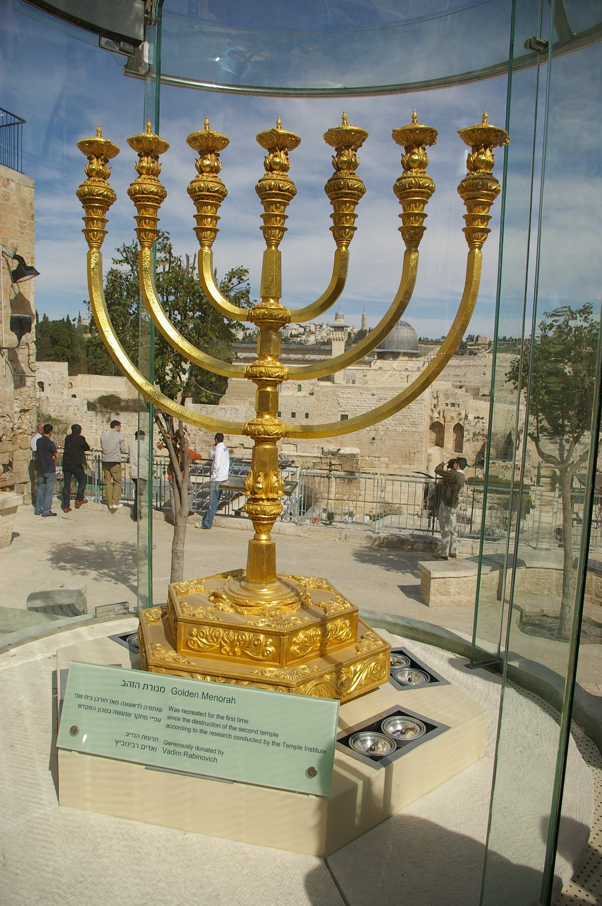 This is the menorah intended for use in a planned "Third Temple" to be built after demolishing the Mosques now standing on the place of the Second Temple. Taken in the Jewish Quarter of Jerusalem. Until 2007, this Menorah was displayed in the Cardo. Now it's on a square in front of the Kotel.